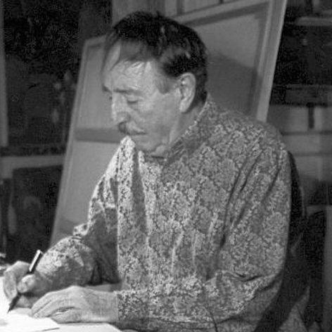 Miguel Dávila. 1926 - 2009. Painter - Artist